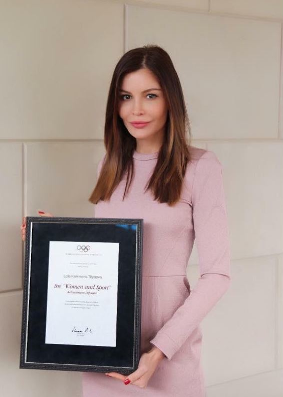 Lola Karimova-Tillyaeva is a prominent philanthropist and former Permanent Delegate of Uzbekistan to UNESCO. Her flagship charities work with disadvantaged children and she also champions environmental causes. Fostering interethnic harmony through promoting cultural understanding is of paramount importance to her. Lola Karimova-Tillyaeva was born in 1978 in Uzbekistan. She earned bachelor’s and master’s degrees in International Law from the University of World Economy and Diplomacy in Tashkent, and later received a doctorate degree in Psychology from Tashkent State University. From 2008 to 2018 she served as Uzbekistan’s envoy to UNESCO, and currently heads three major charitable organizations in Uzbekistan. Oʻzbekcha/ўзбекча: Лола Каримова-Тилляева 1978 йилда Ўзбекистон пойтахти Тошкентда таваллуд топган. Жаҳон иқтисодиёти ва дипломатия университетида бакалавр ва магистр илмий даражаларига эга бўлиб, Тошкент давлат университетида психология фанлари номзодлигини ёқлаган. 2008 йилдан 2018 йилгача Лола Каримова-Тилляева Ўзбекистоннинг ЮНЕСКОдаги доимий вакили лавозимида ишлаган.